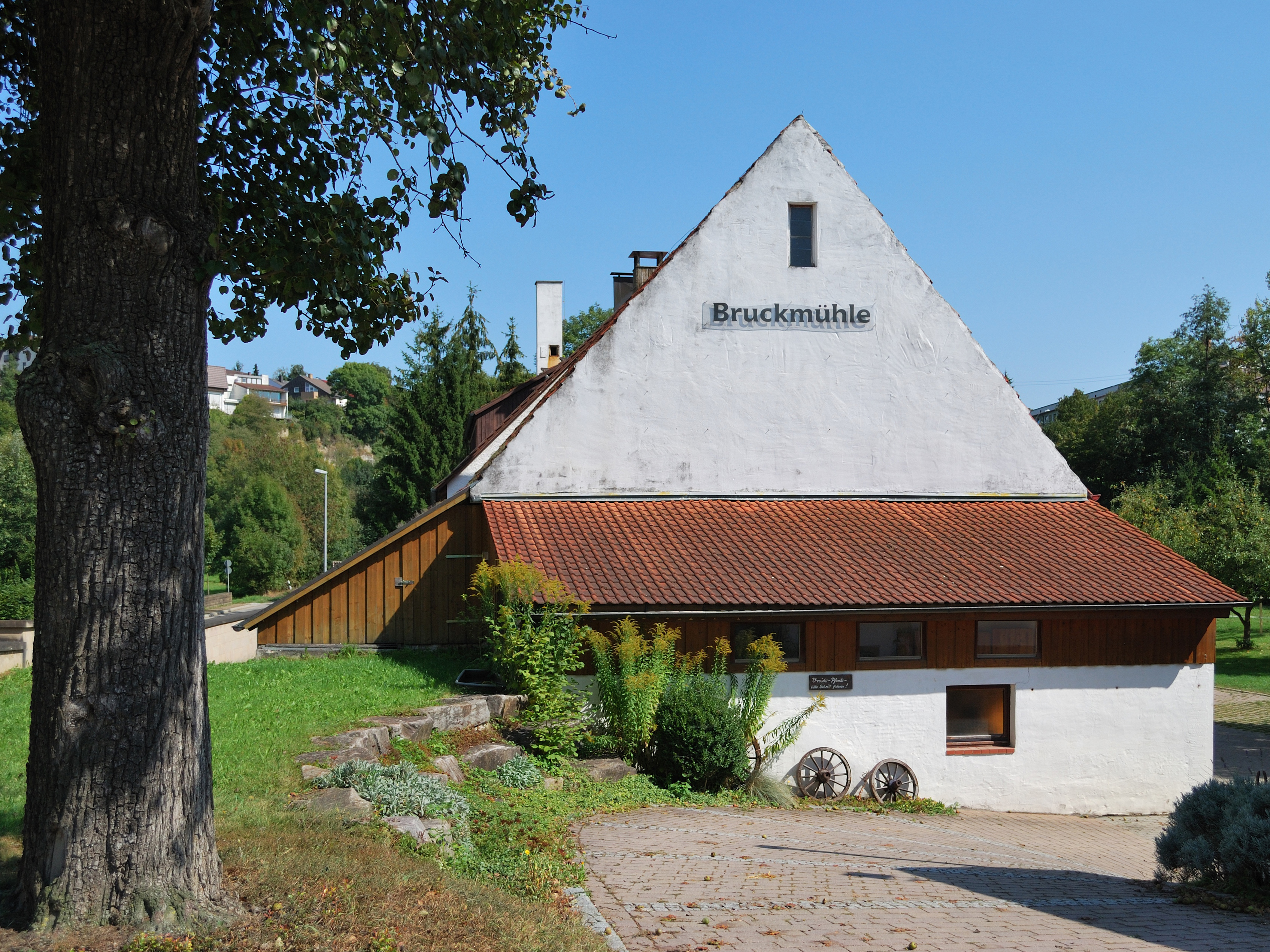 Bruckmühle, a former water mill on the river Glems in Markgröningen in Baden-Württemberg in Germany. The building is used today as an apartment house.